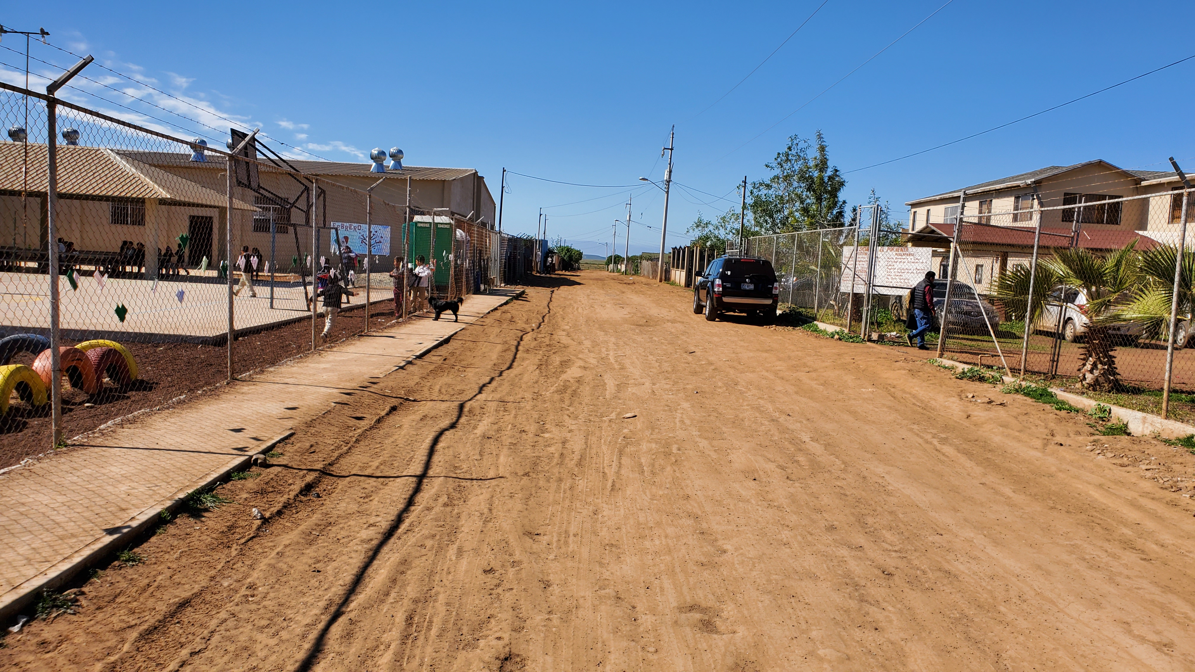 Street of San Telmo